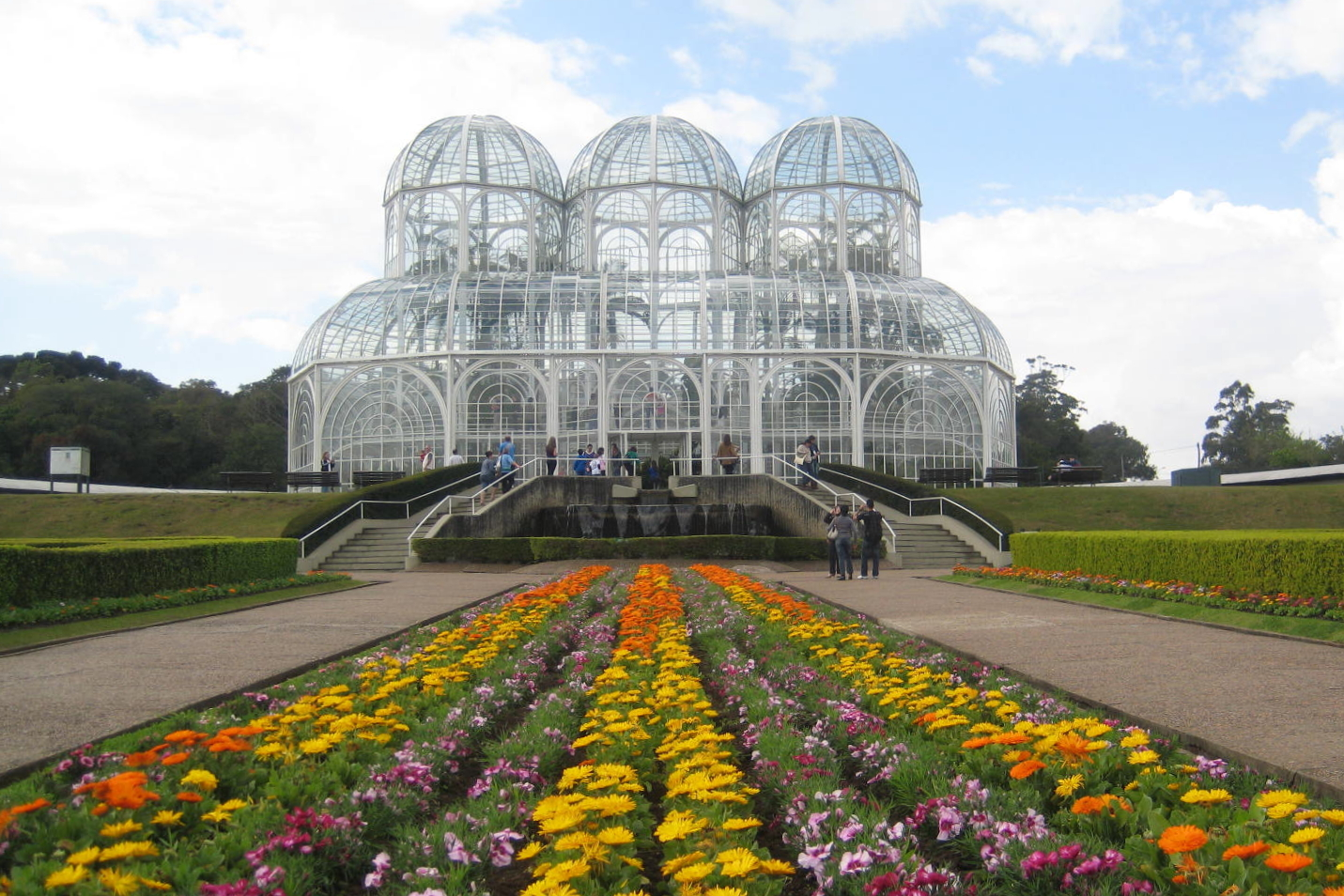 Botanical Garden greenhouse in Curitiba, Brazil - outside